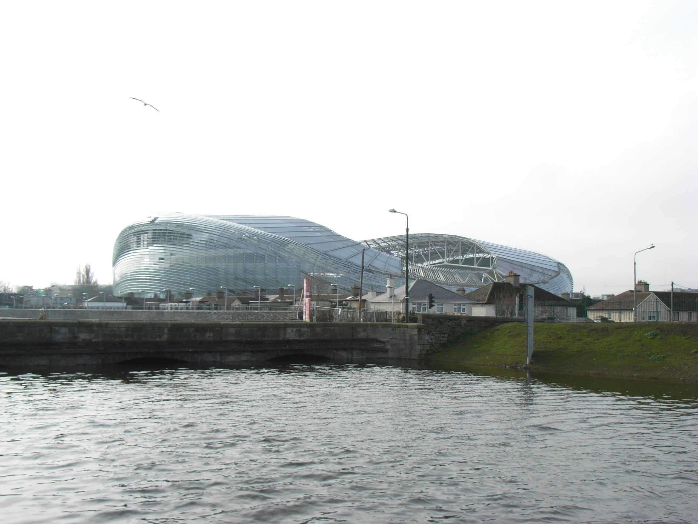 Aviva Stadium (the new Lansdowne Road Stadium), Dublin, Ireland